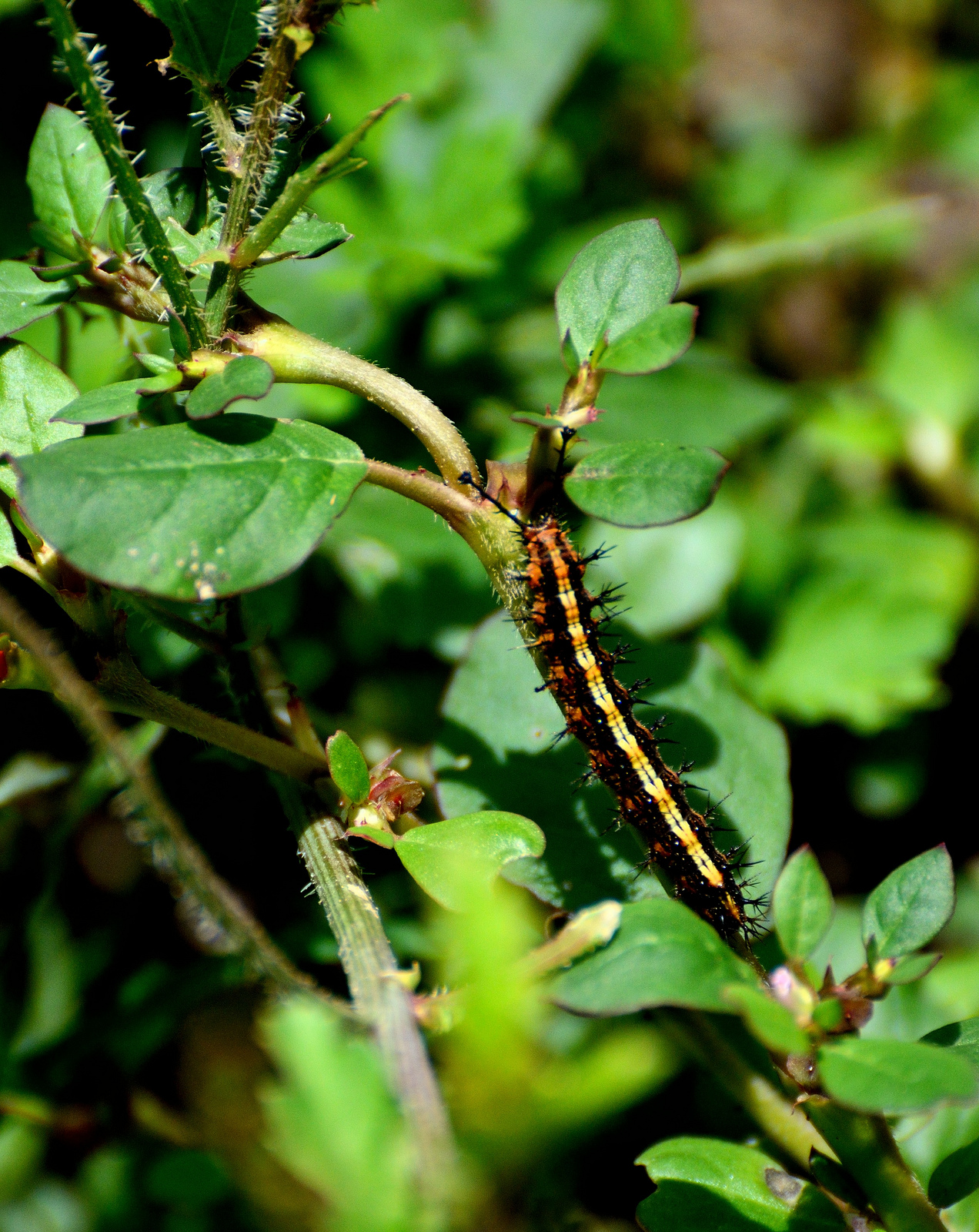 Caterpillar of joker butterfly